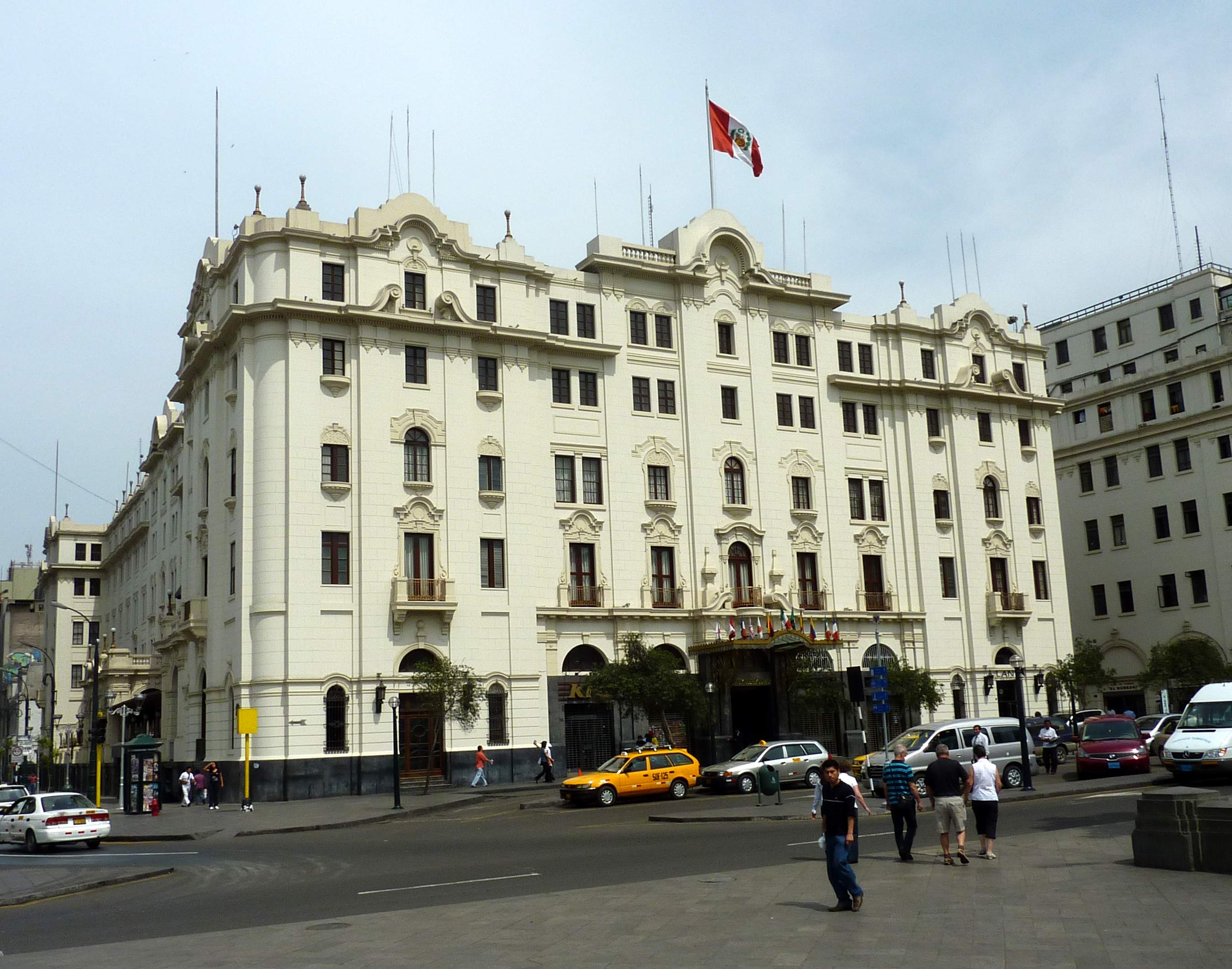 Hotel Bolívar, on the Plaza San Martín, Lima, Peru.